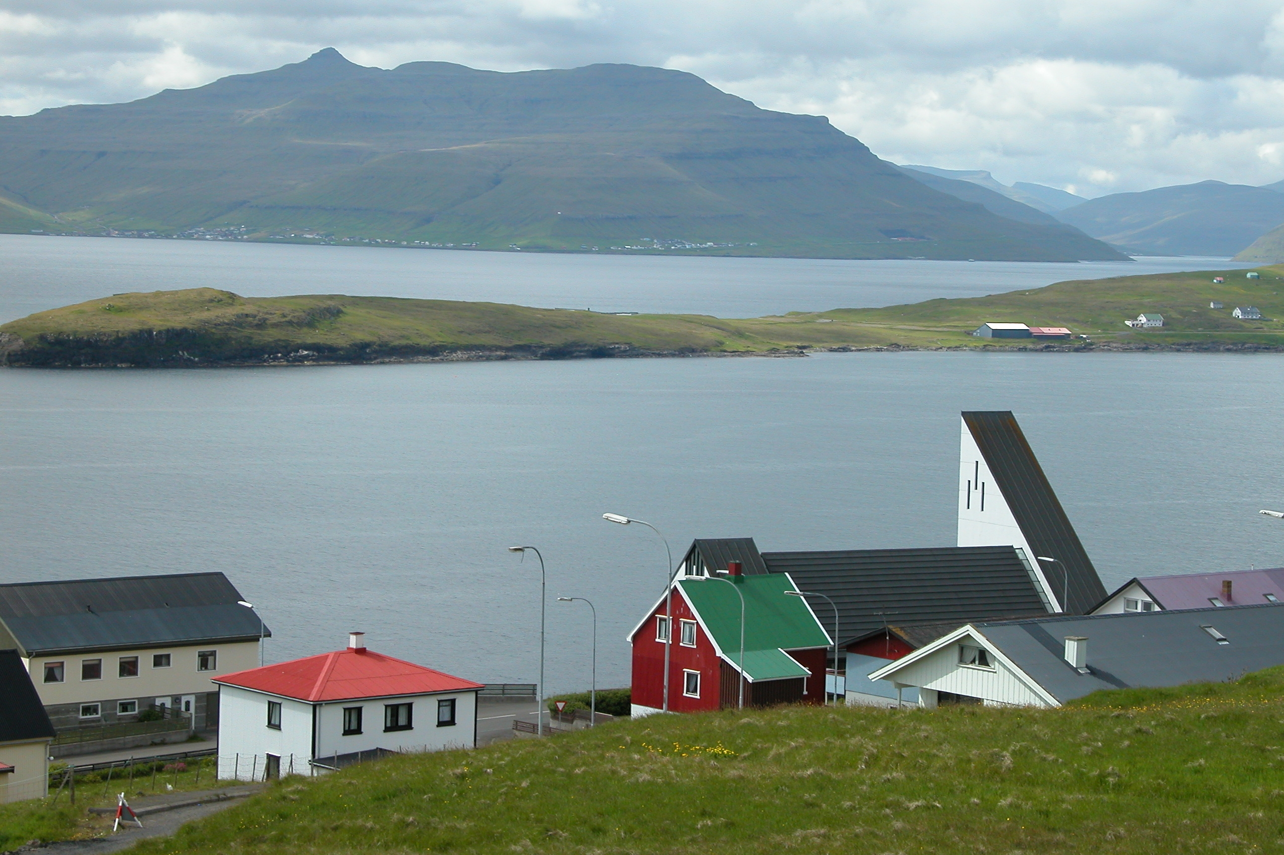 Nes (Eysturoy) at the Skálafjørður in Eysturoy, Faroe Islands